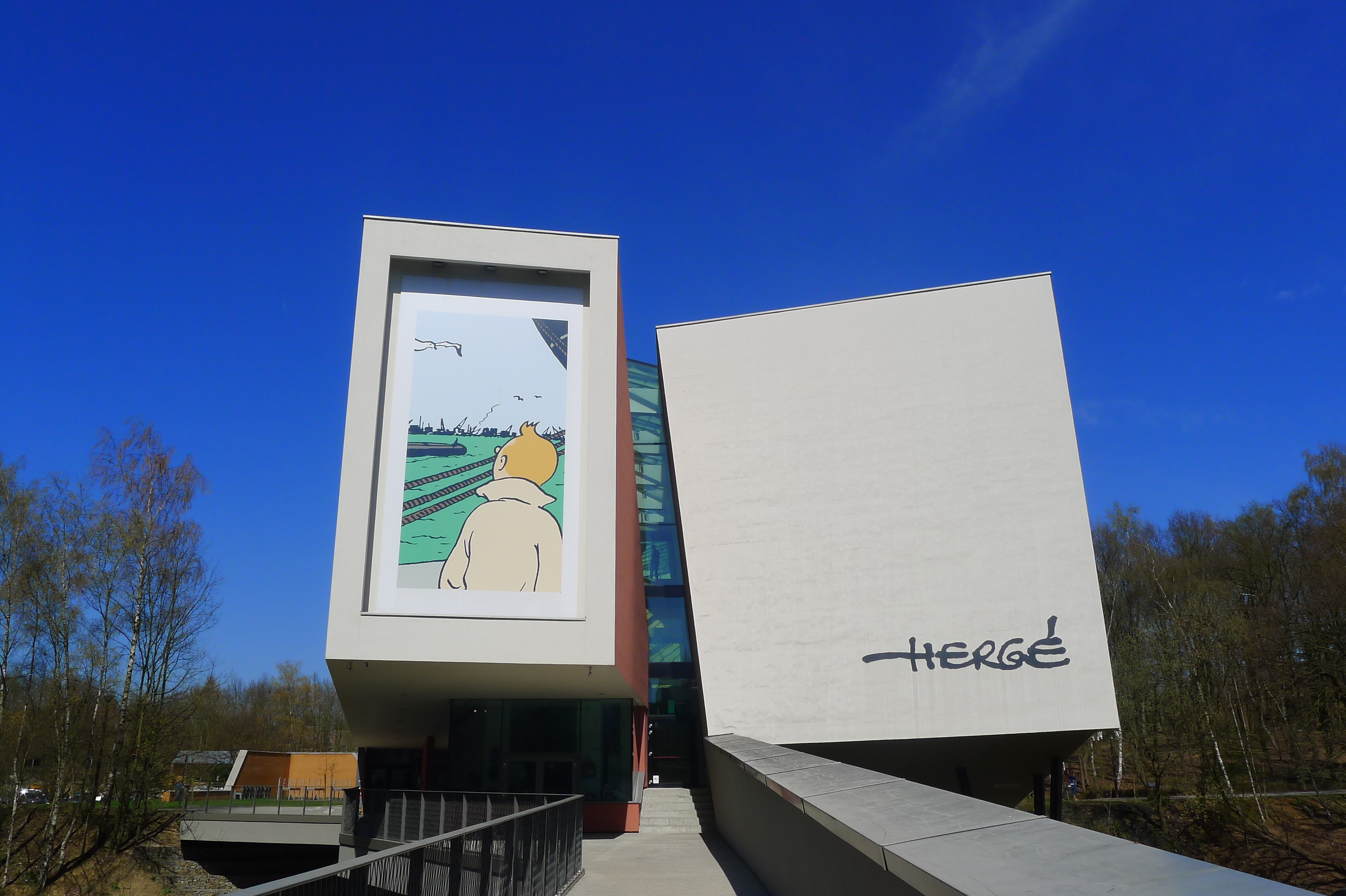 Musee Hergé, Louvain la Neuve